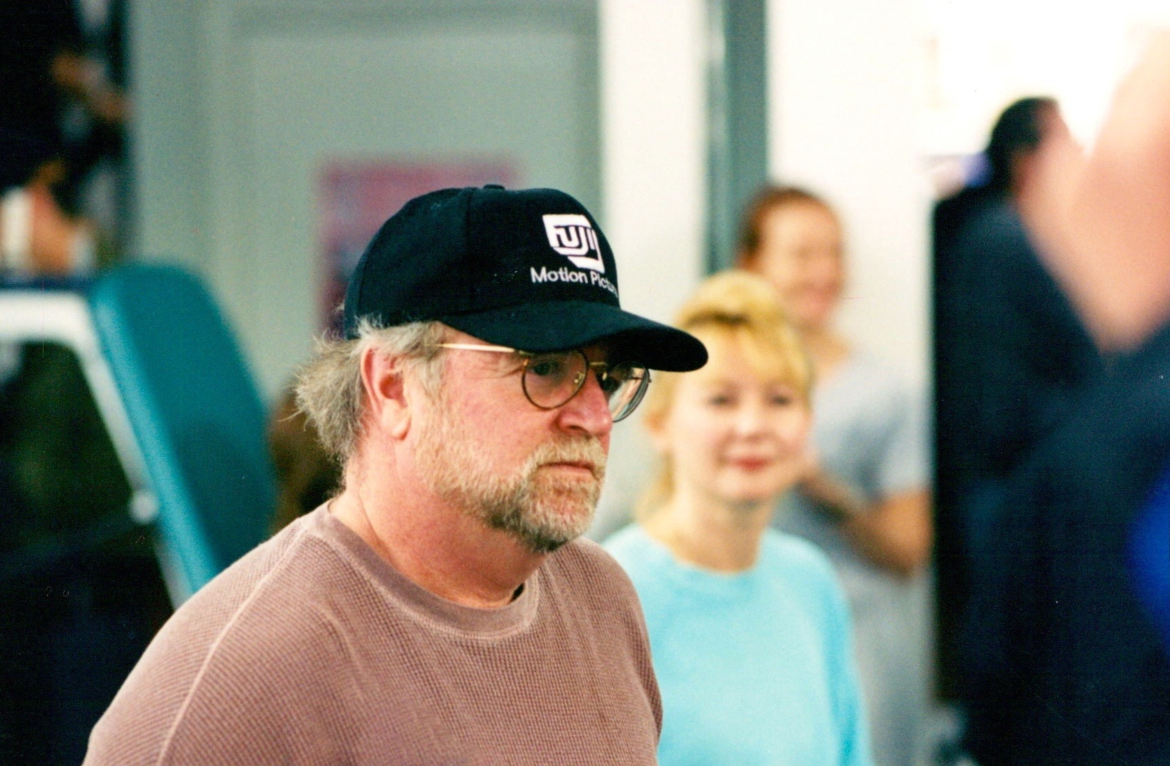 Photograph of director Michael Switzer, taken on set of film "Forever Love" (1998)